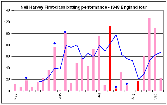 FC batting chart for Neil Harvey during the 1948 tour of England. Blue line is an average for five most recent innings, blue dots are not outs. Bars are runs scored. Pink for FC, red for Tests